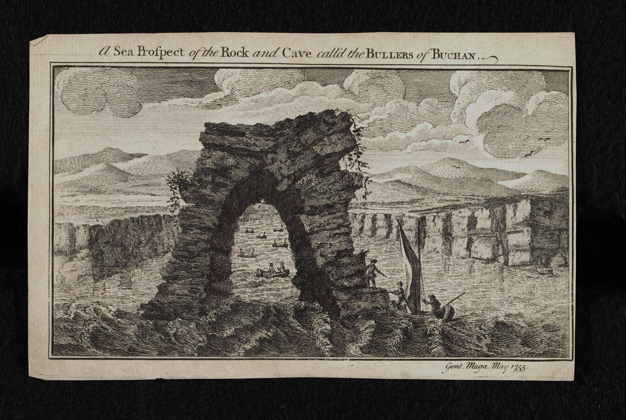 Bullers of Buchan (sea prospect) Gent. Maga. May 1755